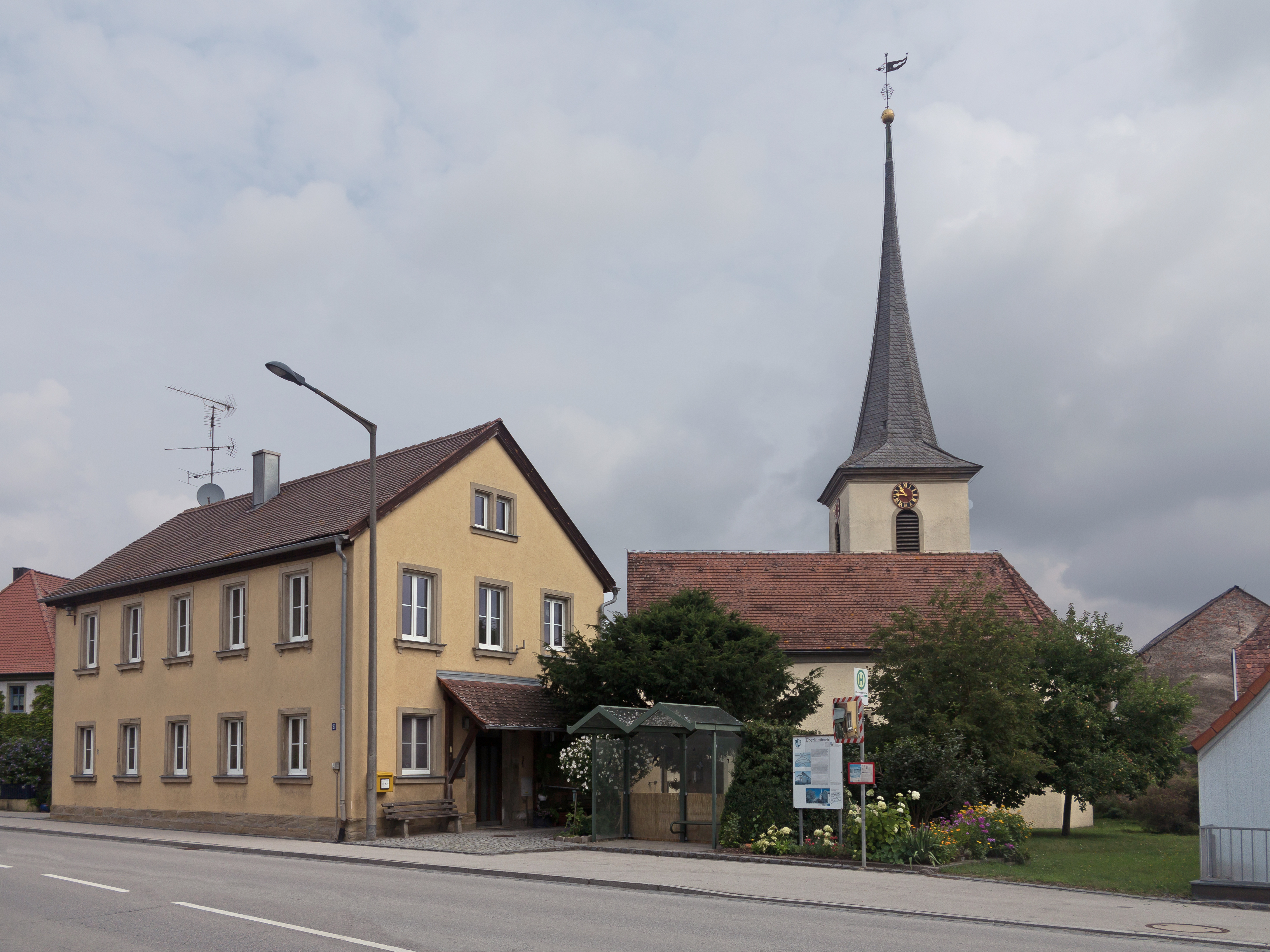 Oberlaimbach, church: die evangelisch-lutherische Pfarrkirche Sankt Peter und PaulThis is a photograph of an architectural monument.